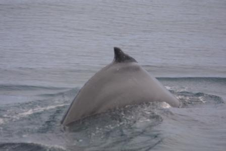 This is an image of the latter half of the back of a Humpback Whale just as it begins its deep dive. It was photographed off western Iceland on 5th August 2003